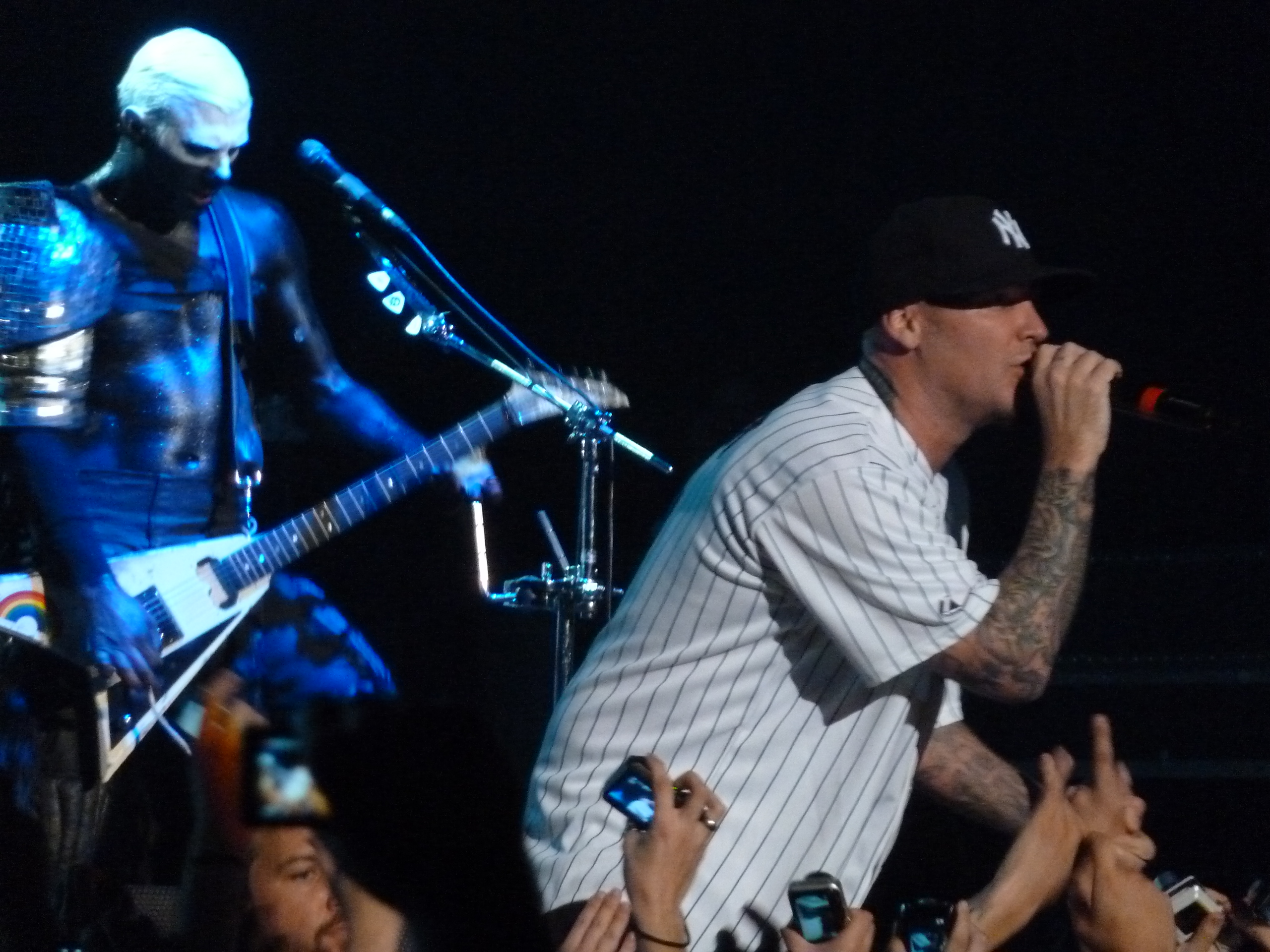 Limp Bizkit's Wes Borland and Fred Durst performing at the Movistar Arena in Santiago, Chile on July 21, 2011.